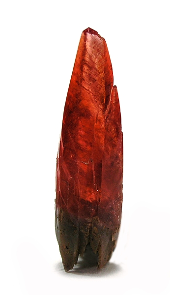 Rhodochrosite Locality: Santa Eulalia District, Municipio de Aquiles Serdán, Chihuahua, Mexico (Locality at ) Size: thumbnail, 2.4 x 0.5 x 0.5 cm Rhodochrosite This is a superb example of a gemmy, lustrous, red, scalenohedral rhodochrosite crystal - and NOT from South Africa though it superficially looks it! This is a rare treasure for ma very small find in Santa Eulalia (i am told in the late 1970s). It is a supremely good thumbnail with juicy color and a sharp termination coming to a gemmy, jeweled point. It is also doubly terminated, even though the lower one appears to be jagged.